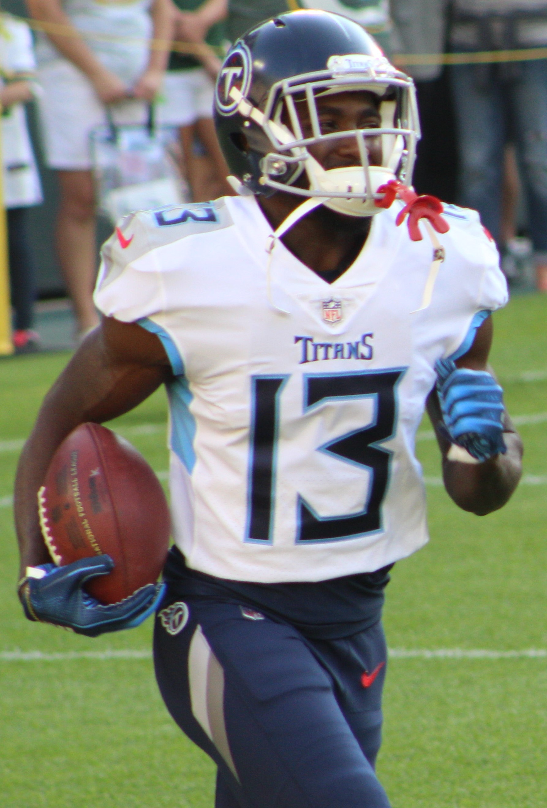 Taywan Taylor, Tennessee Titans at Green Bay Packers (Preseason), August 9, 2018